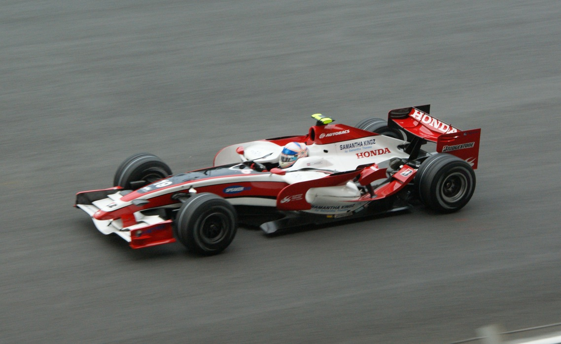 Anthony Davidson Super Aguri 2008 Malaysia